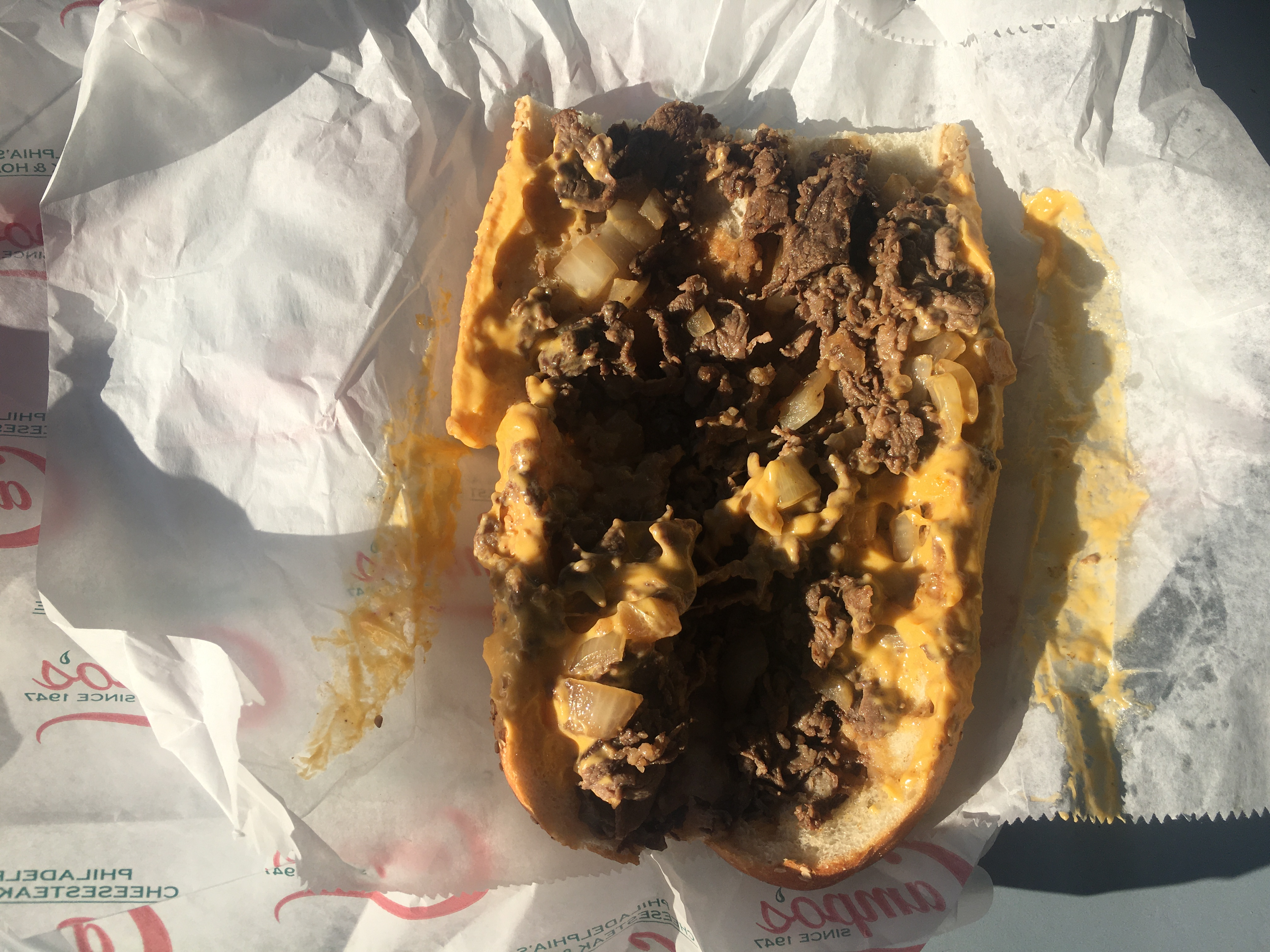 Cheesesteak from Campo's, Whiz with onions